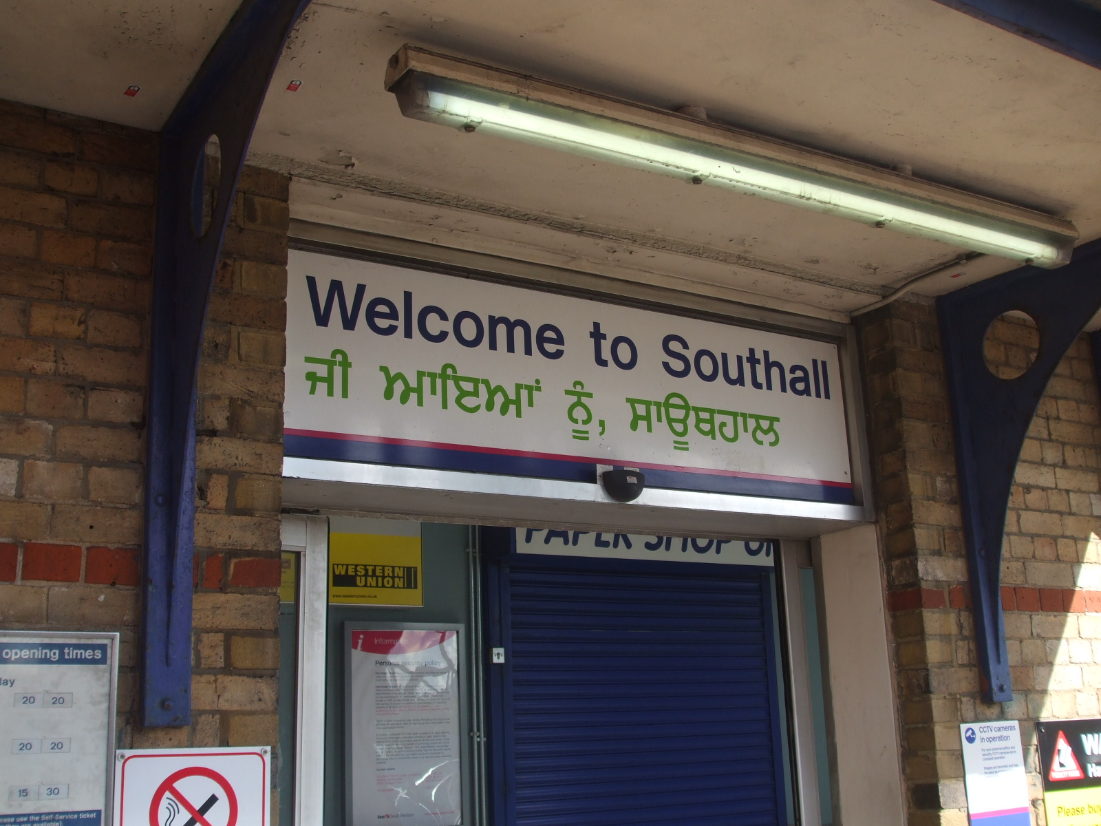 Southall station entrance signage, also in Panjabi to reflect the population of Punjabi descent in the local area ਪੰਜਾਬੀ: ਸਾਊਥਾਲ ਸਟੇਸ਼ਨ ਦੀ ਦਾਖ਼ਲਾ-ਫੱਟੀ, ਪੰਜਾਬੀ ਵਿੱਚ ਵੀ ਤਾਂ ਜੋ ਲੋਕਲ ਇਲਾਕੇ ਵਿੱਚ ਵਸਦੀ ਪੰਜਾਬੀ ਪਿਛੋਕੜ ਵਾਲ਼ੀ ਅਬਾਦੀ ਦਰਸਾ ਸਕੇ